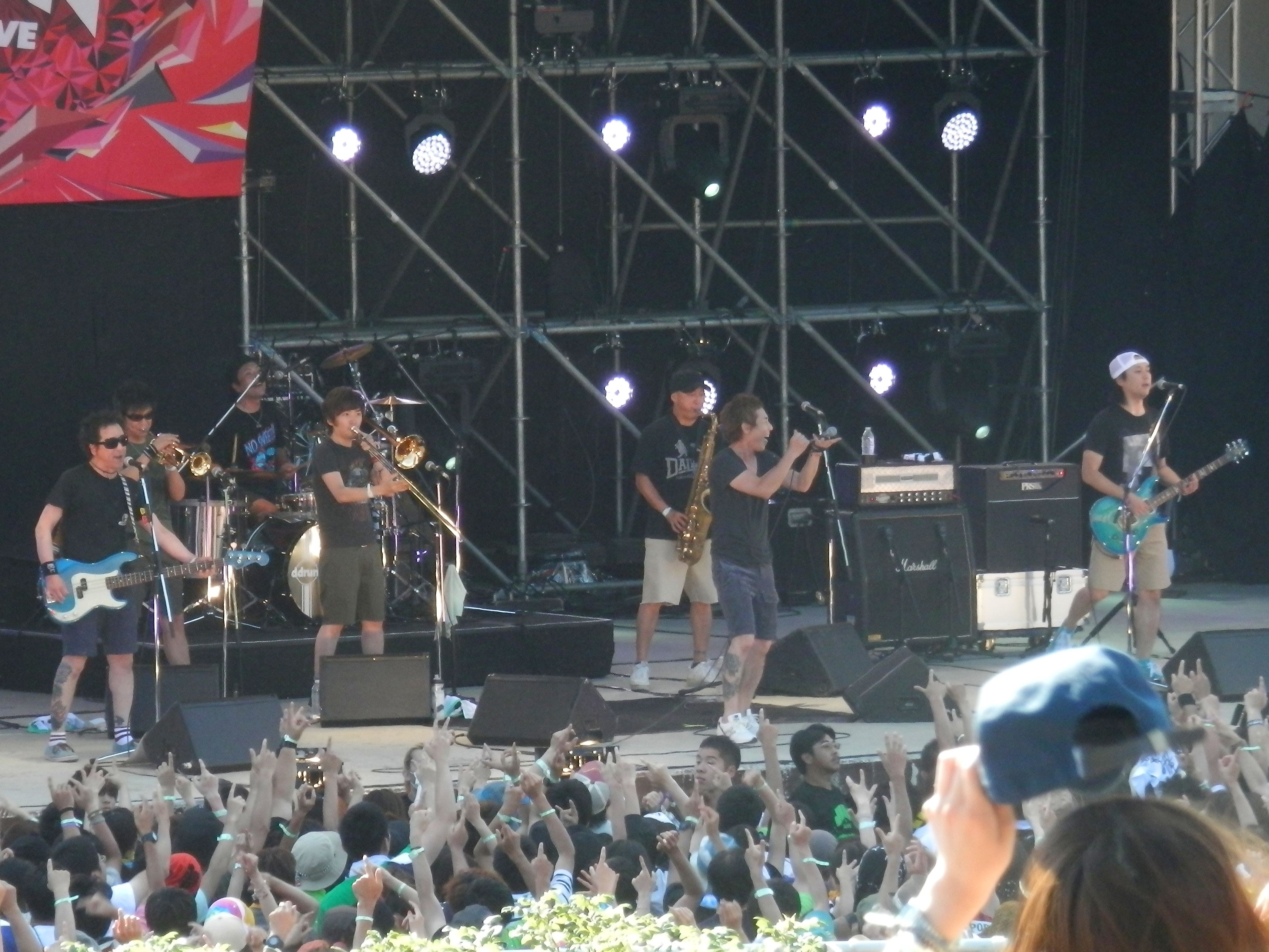 Kemuri at Join Alive rock festival in Iwamizawa, Hokkaido (June 21, 2013)